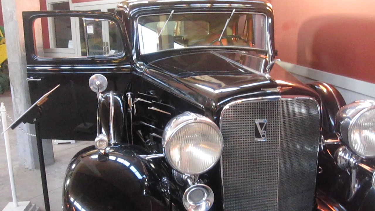 I took photo at Texas Cowboy Hall of Fame with Canon camera.